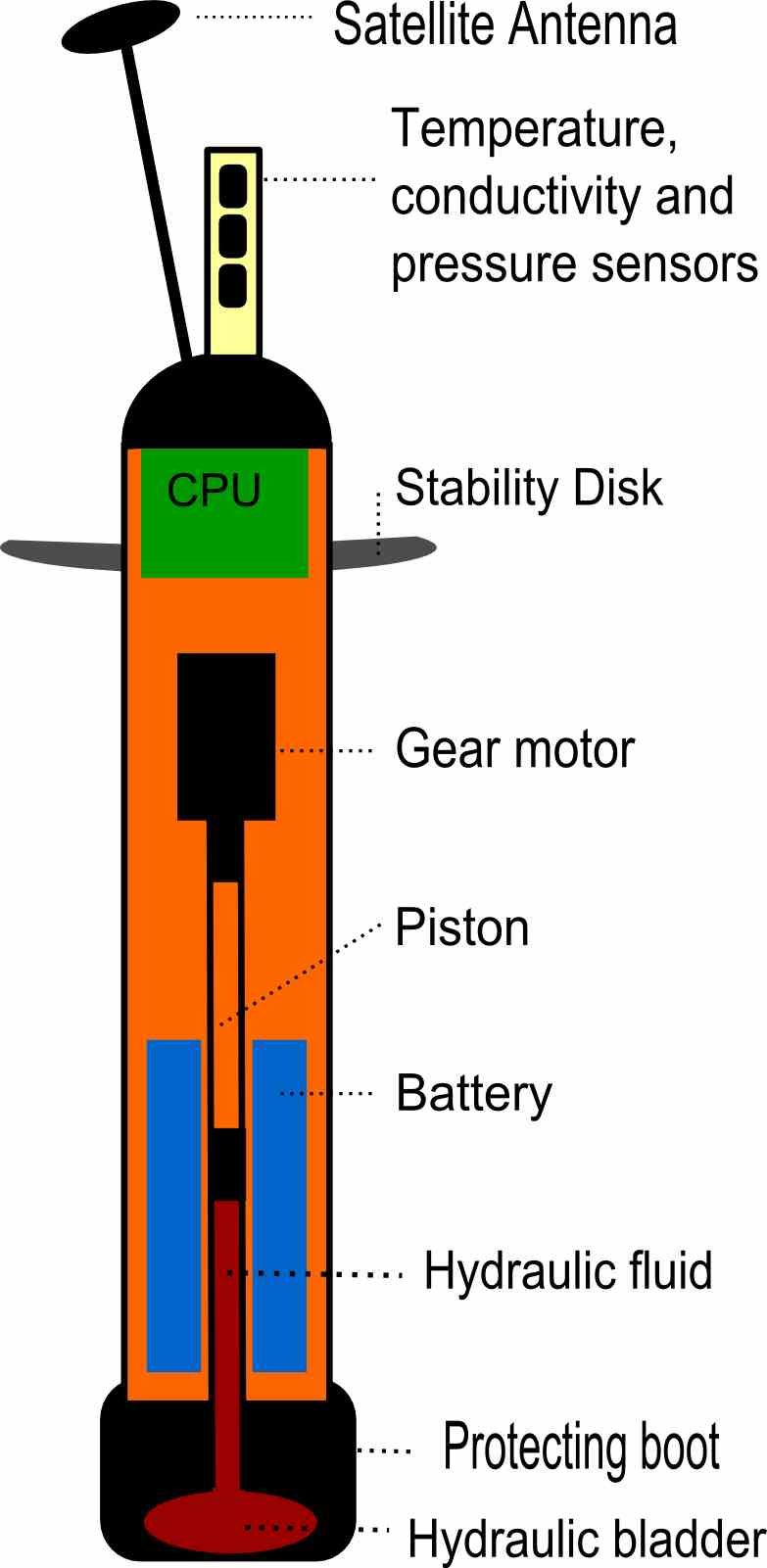 A schematic diagram showing the general structure of a profiling float as used in Argo.